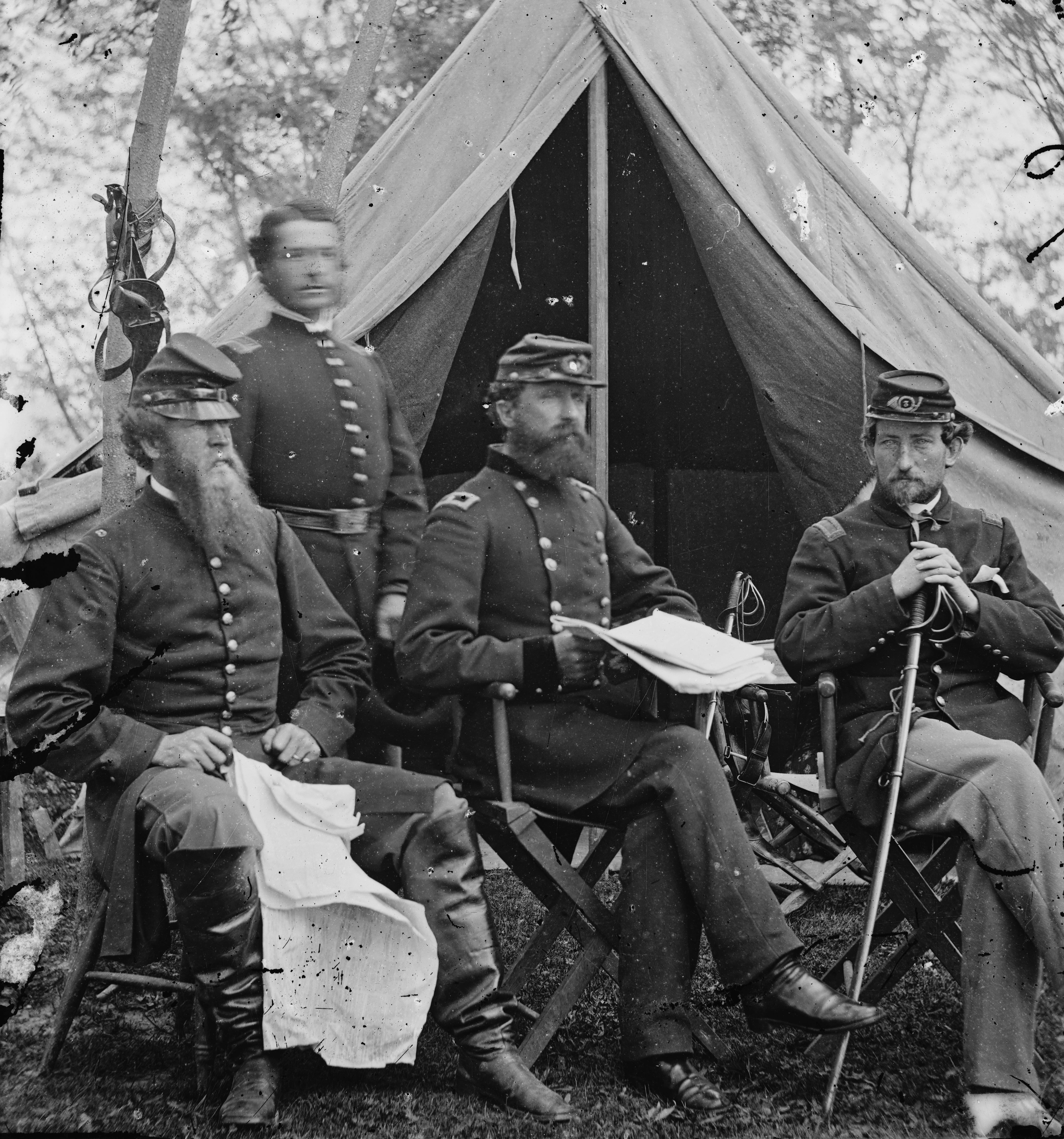 George Sykes and staff. Library of Congress description: "Gen. Geo. Sykes & staff."